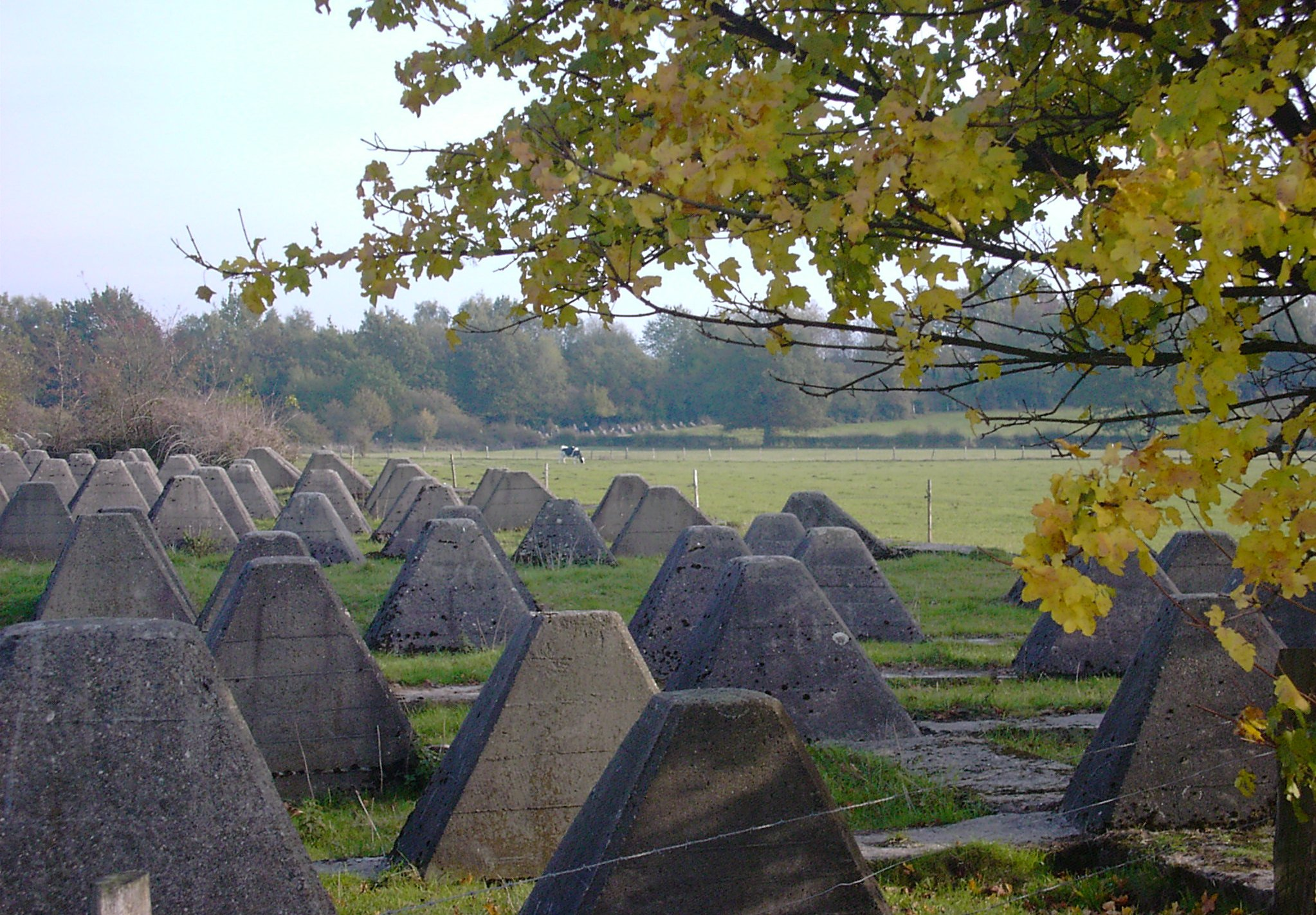 anti-tank obstacle (Dragon's teeth type) in the south of Aachen (part of the Siegfried Line)